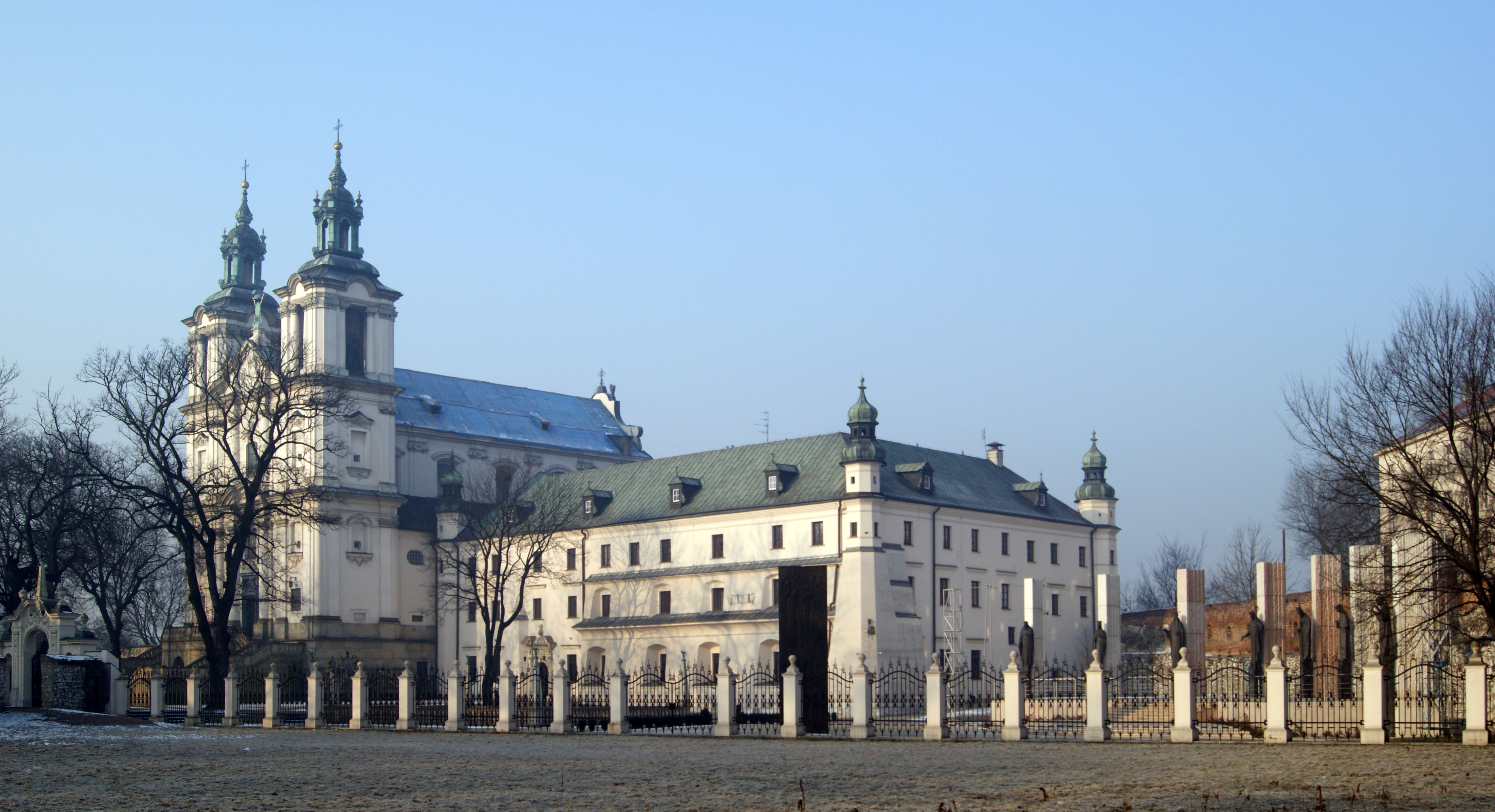 Church of St Michael the Archangel and St Stanislaus Bishop and Martyr, Pauline Fathers Monastery, 15 Skałeczna street, Kazimierz, Krakow, Poland